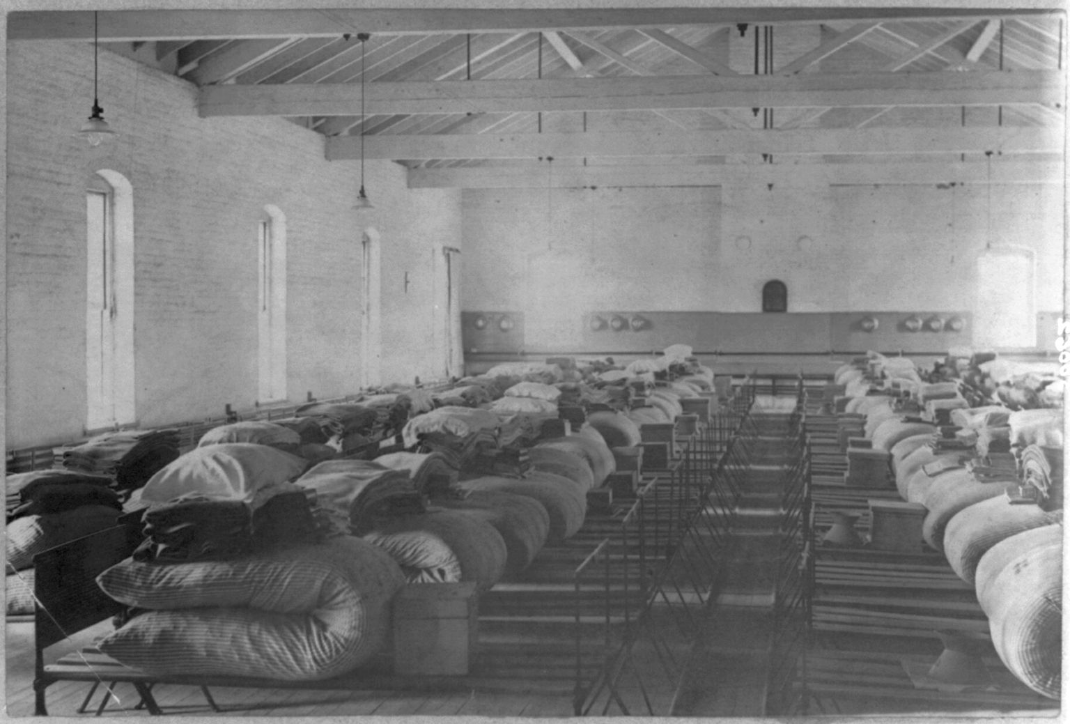 Prison dorm, Leavenworth, Kansas